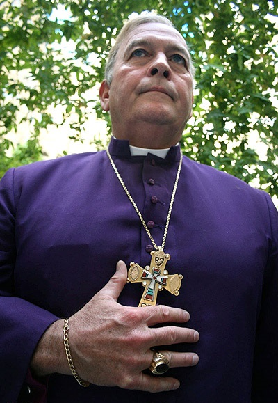 John Bryson Chane meeting with Naser Makarem Shirazi, Qom - 10 October 2007 (2 8607180589 L600). for more (in Persian, ISNA archive), (in English, (Newsmax archive)